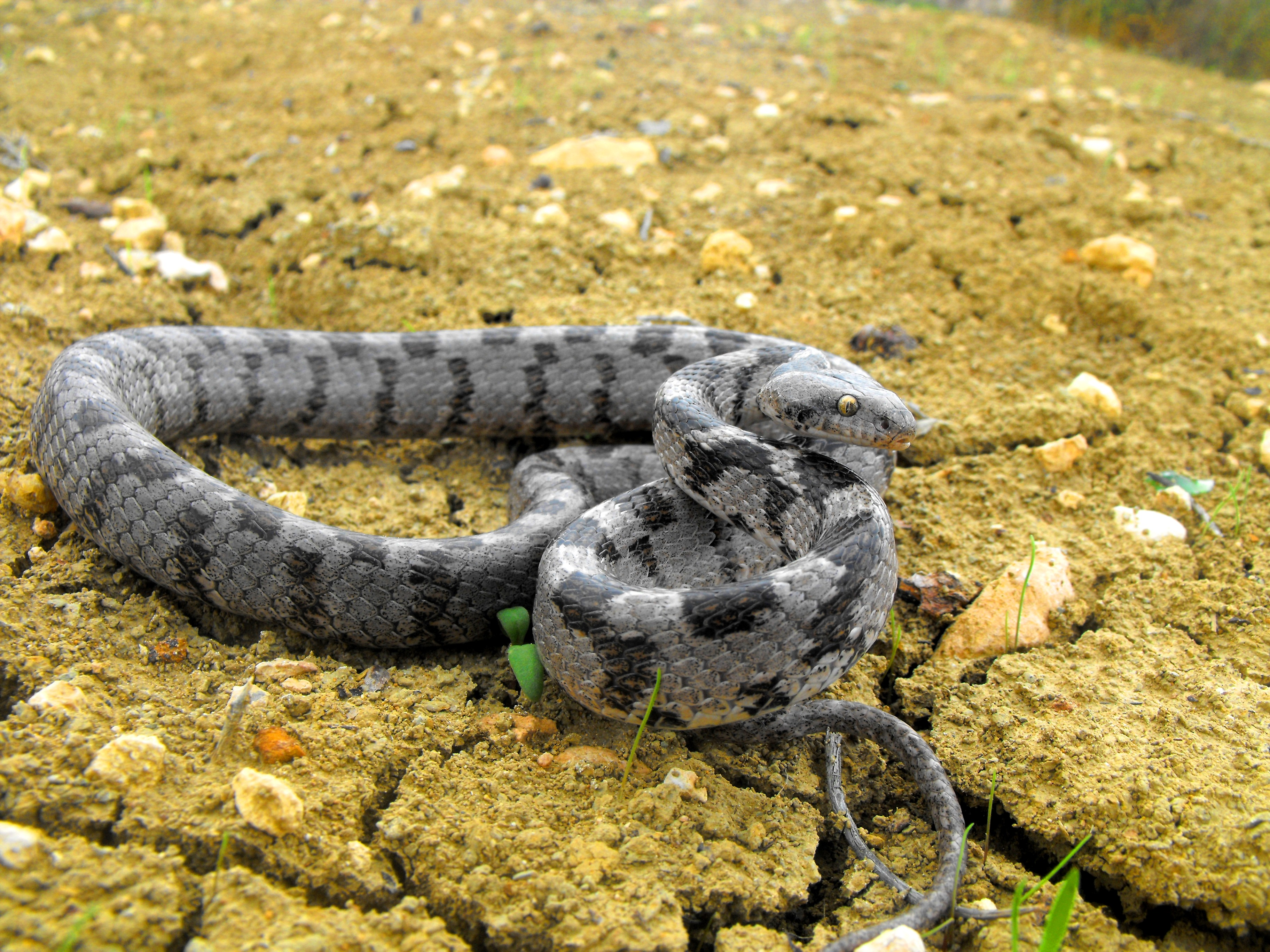 A Maltese specimen of the European/Mediterranean Cat Snake